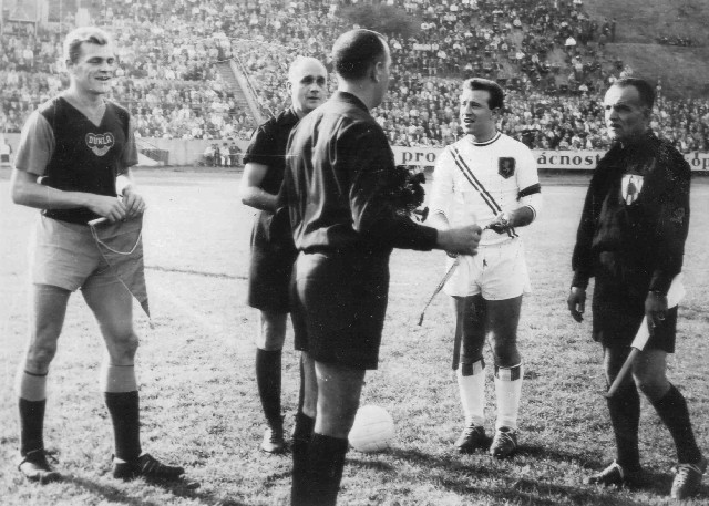 Valletta F.C. skipper Frankie Zammit (second from right) prior to a 1963–64 European Cup match against Dukla Prague at the Juliska Stadium.